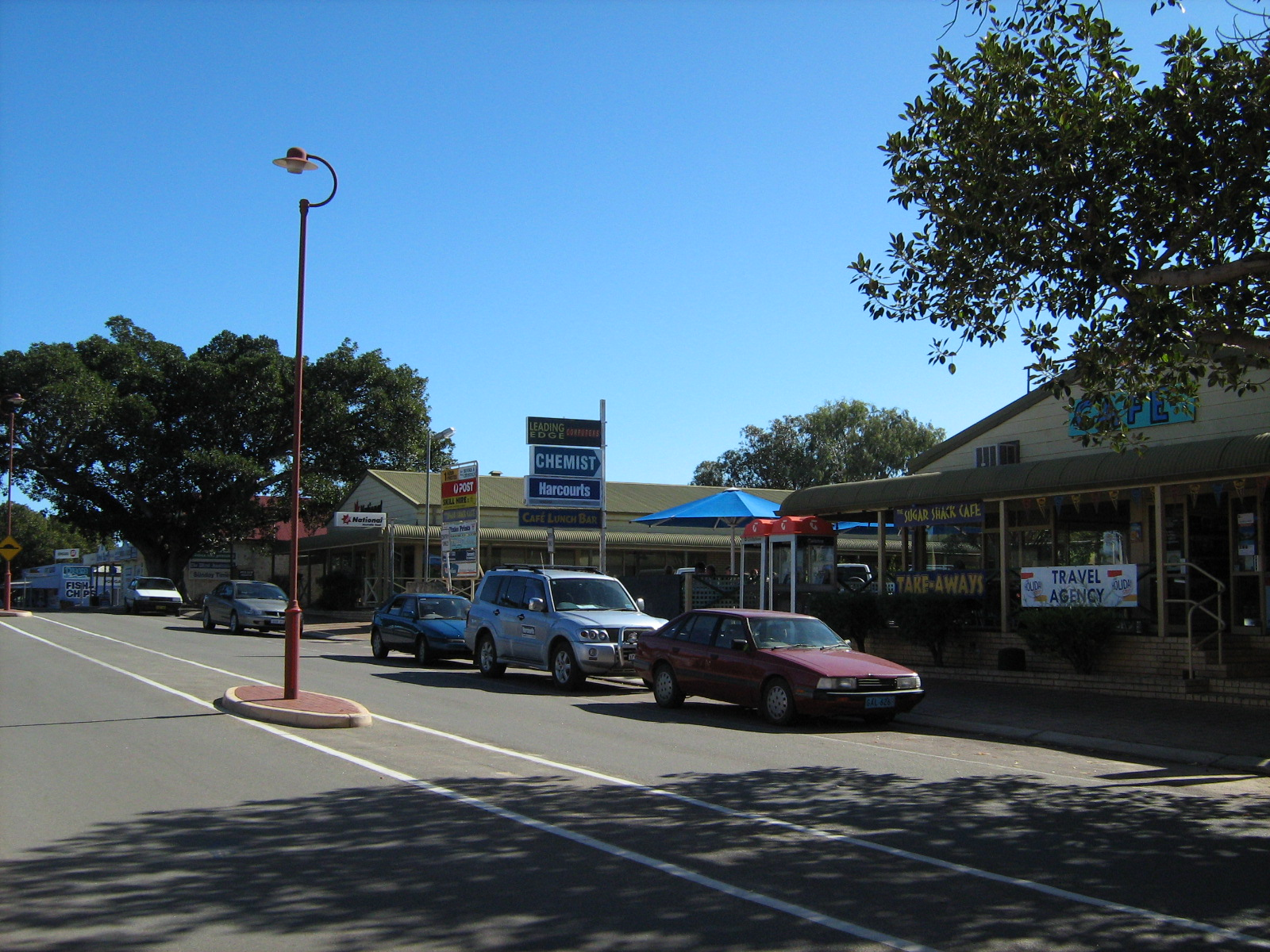 Dongara commercial area in Church Street, Dongara, Western Australia.